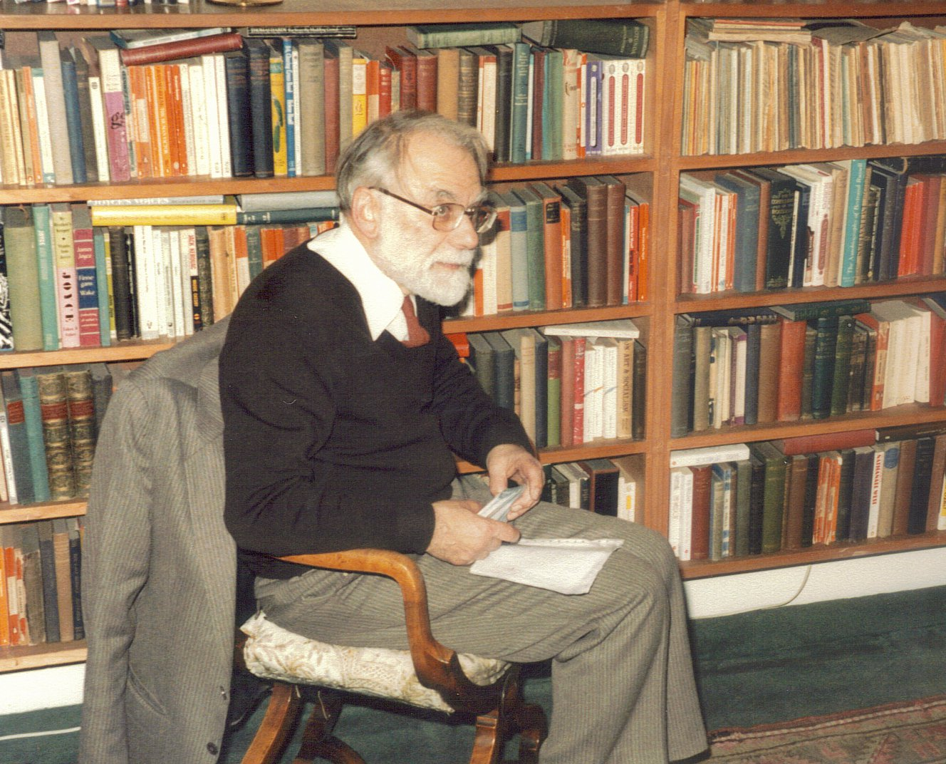 Picture of Bernard L. Ginsborg taken at 11 Magdala Crescent, Edinburgh, 19 December 1985